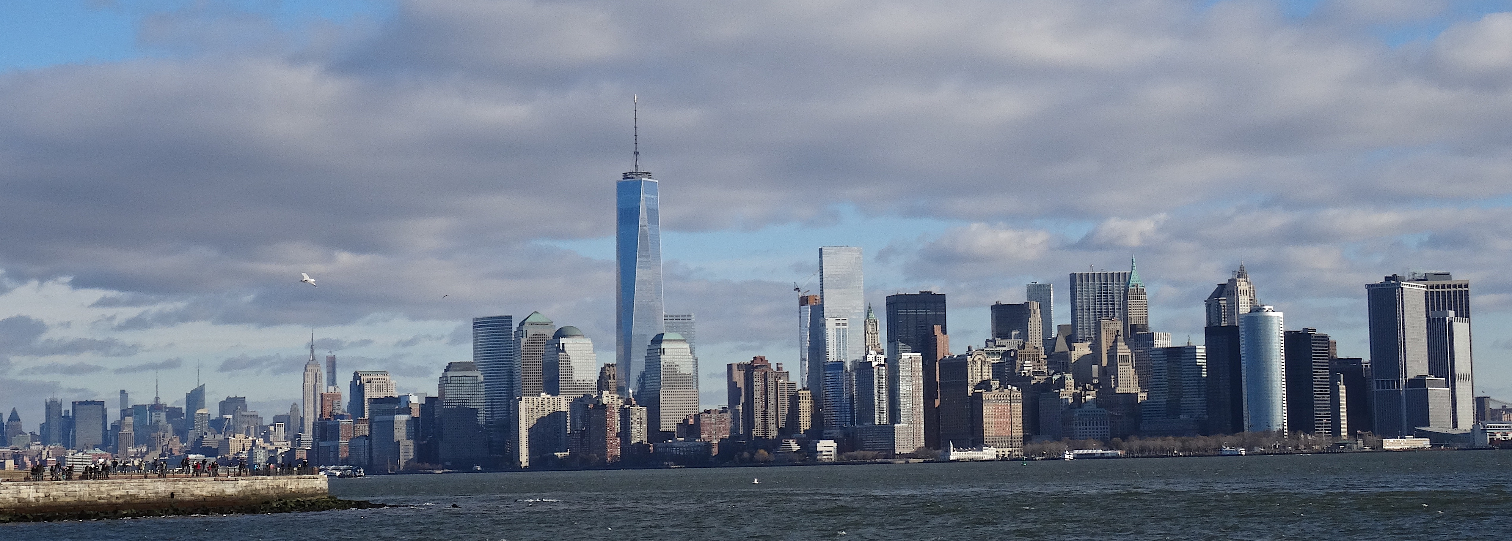 Lower Manhattan in December 2014.